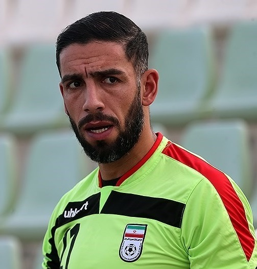 Ashkan Dejagah in Iran national football team training